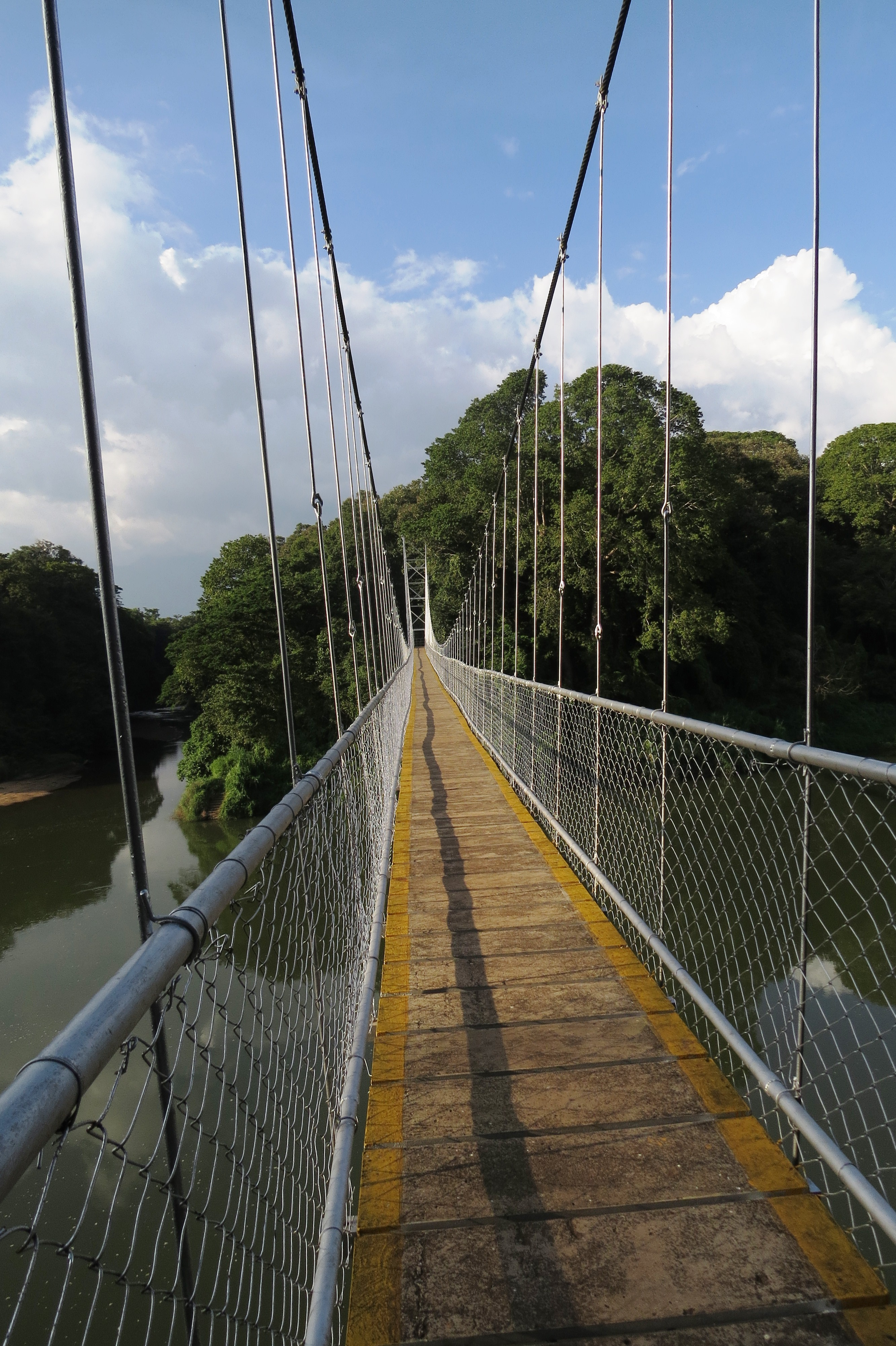 Canoly hanging bridge nilambur